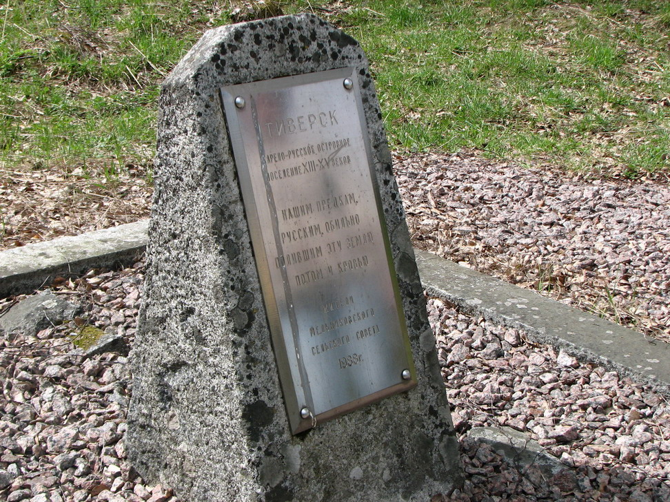 Tiversk